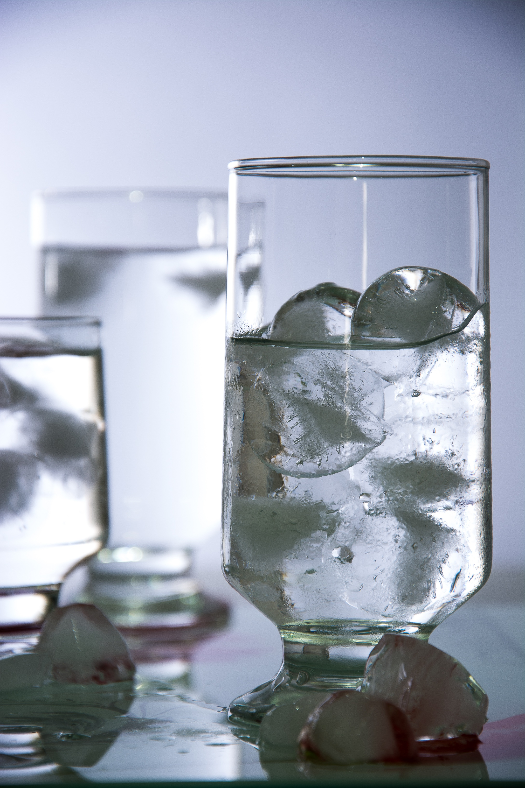 Ice cubes on liquid water.